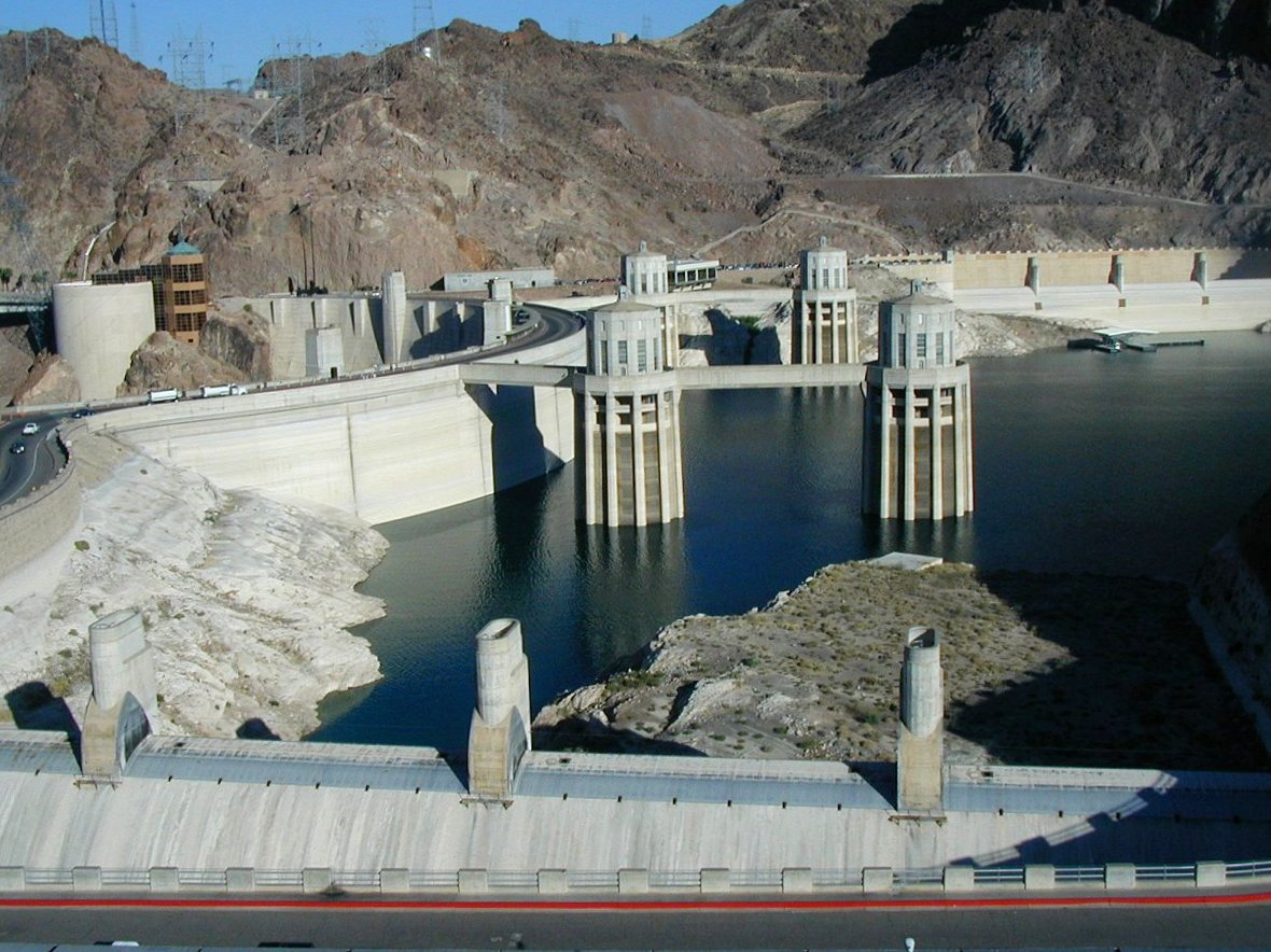 Hoover Dam, Arizona spillway (bottom/front), water intake towers